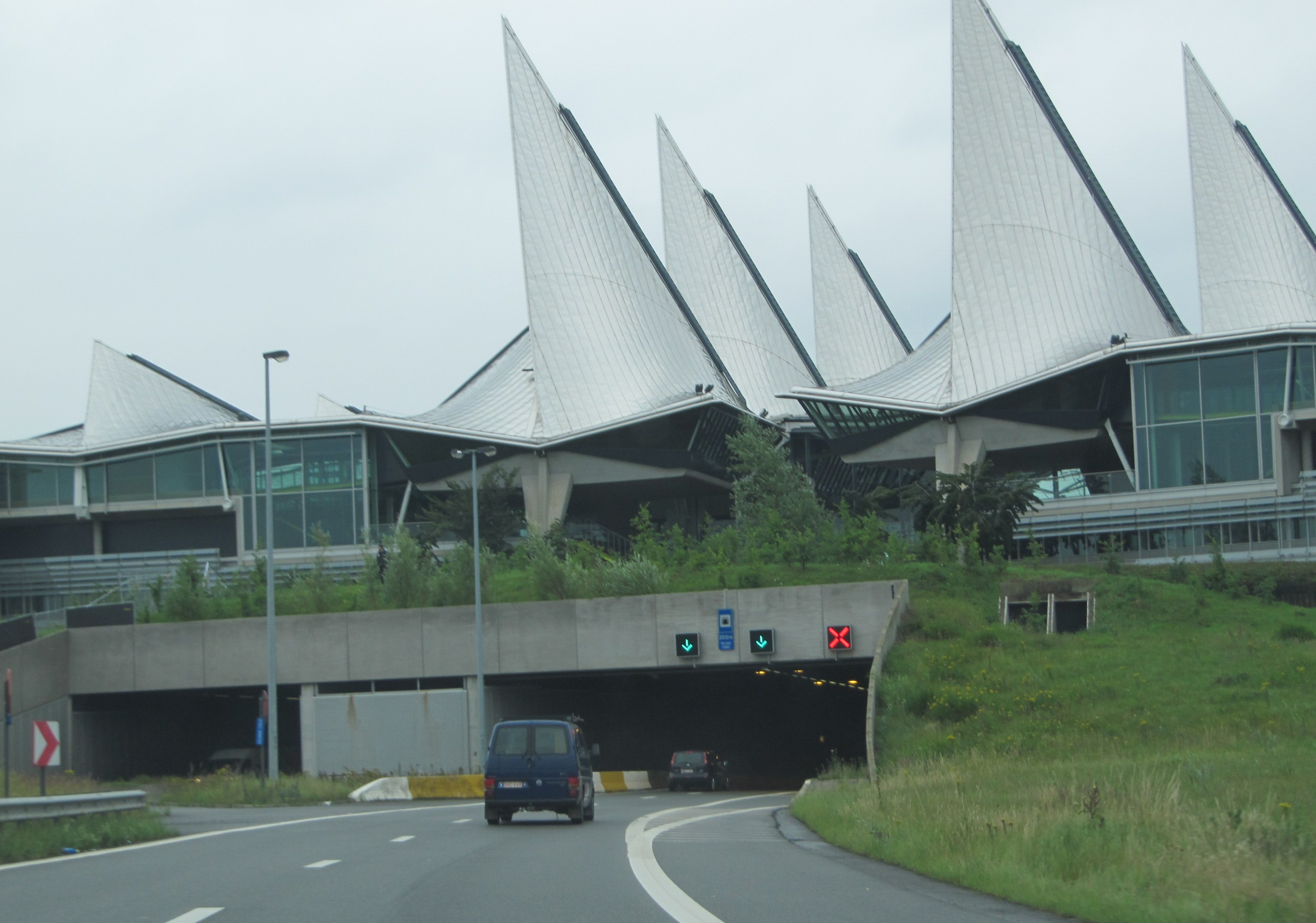 Bolivartunnel